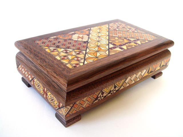 Beautiful Japanese Jewelry Box decorated with traditional Japanese wooden mosaic - Yosegi